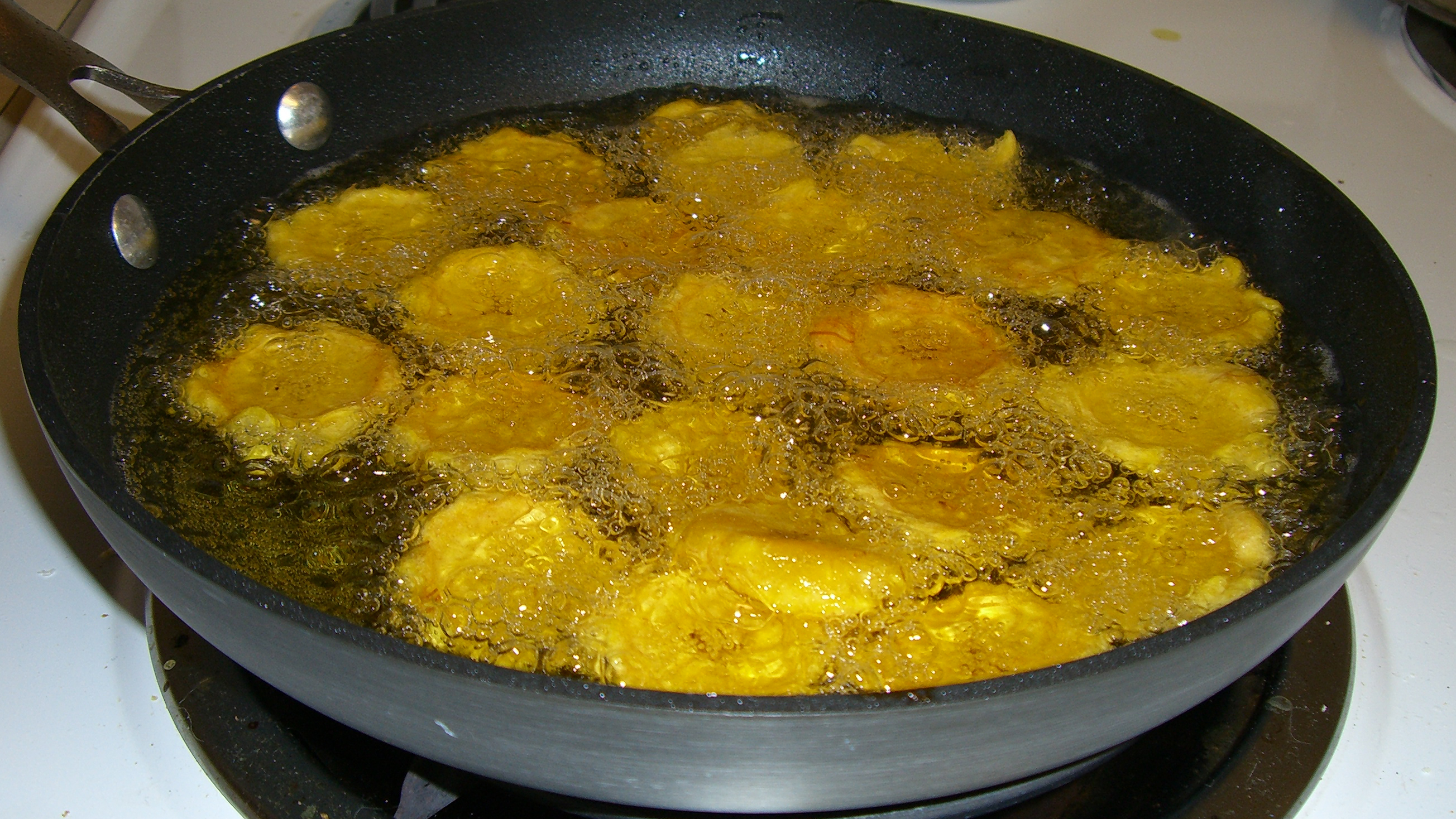 Photo taken on October 28, 2006 of plantains frying in a pan. Source: Photo taken by dozenist.